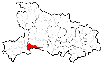 Wufeng County is highlighted on this map of Hubei province, People's Republic of China.